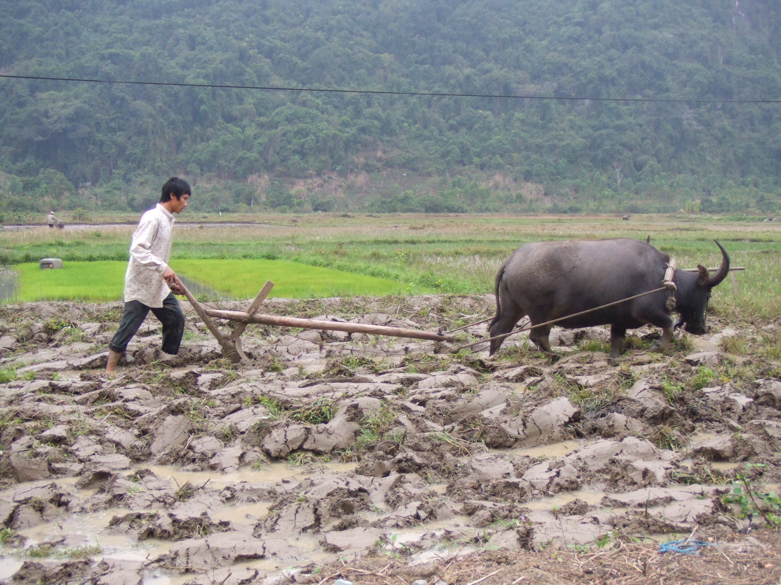 Field ploughing using buffalo, North Vietnam